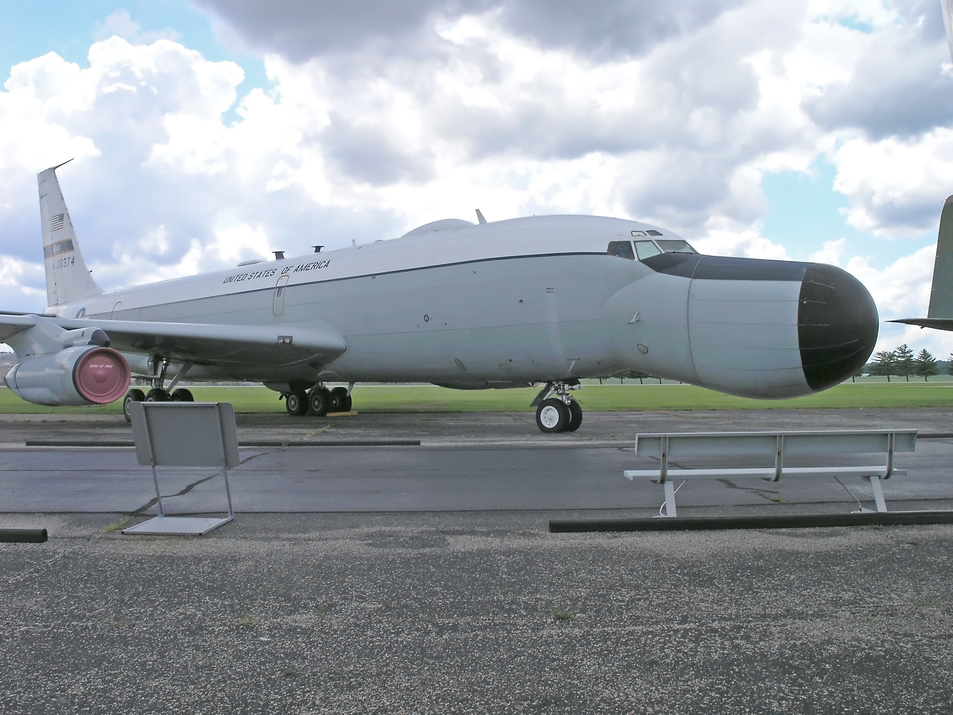 Boeing EC-135E ARIA 60-0374 at the National Museum of the United States Air Force, Ohio.